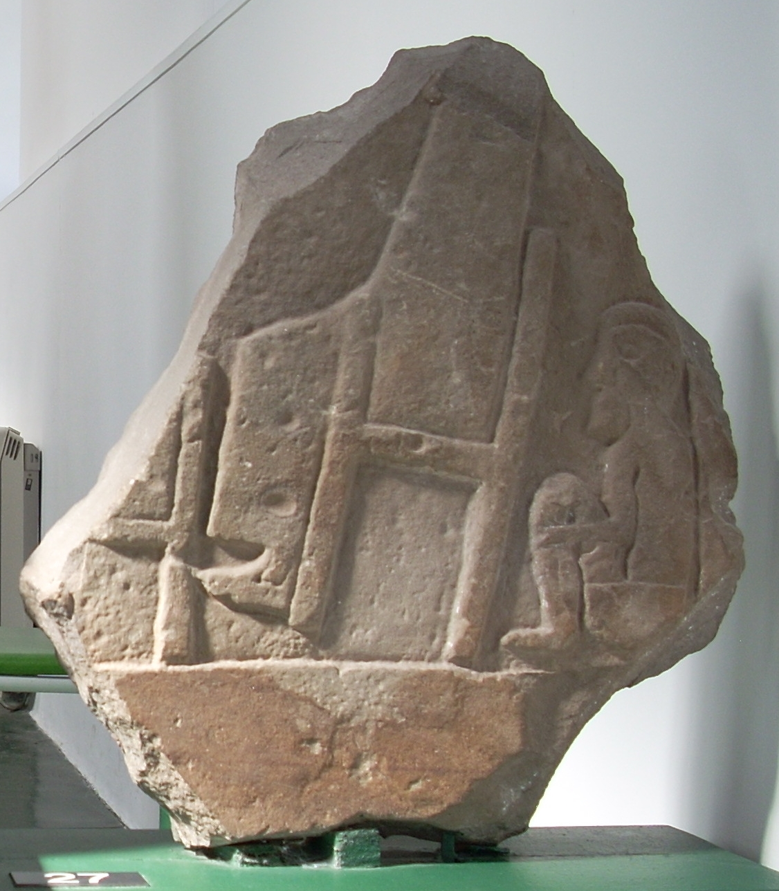 The back of Pictish stone Meigle 27 in the Meigle Sculptures Stone Museum, Scotland.